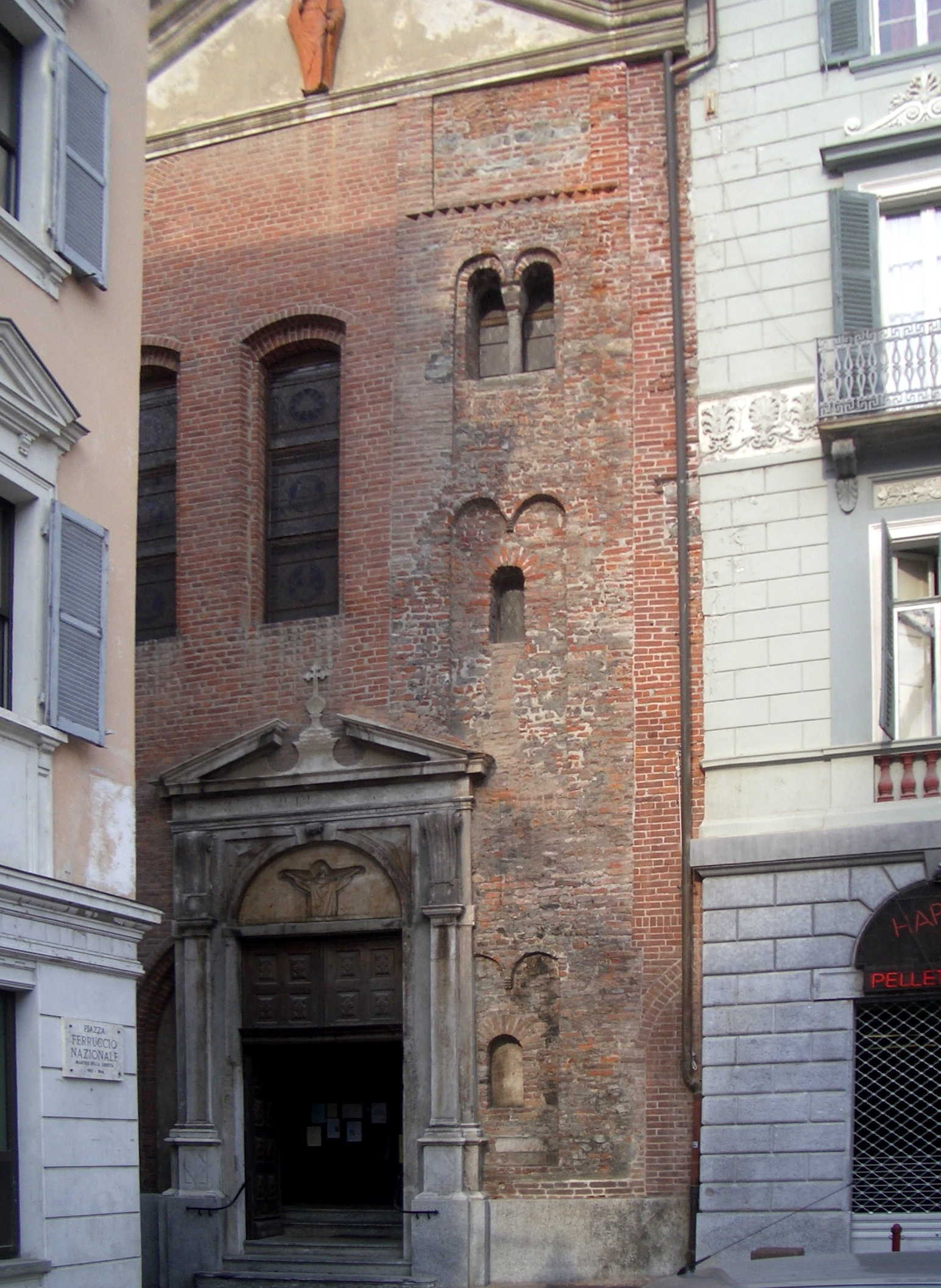 “Sant’Ulderico Church “, The facade embedding the old romanesque clock tower, Ivrea, Turin, Italy